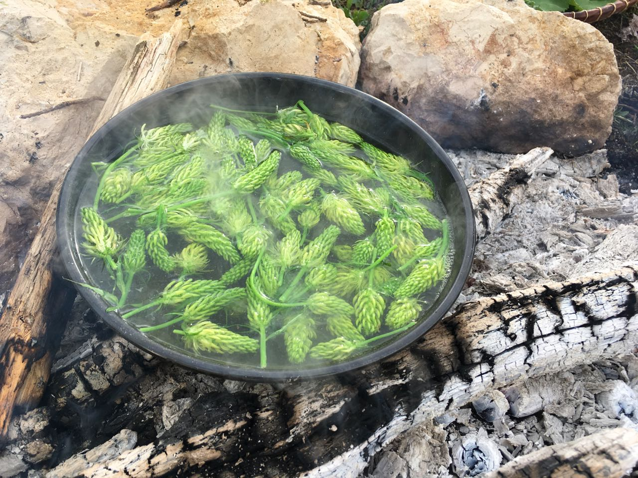 Cooking young flowers of spiked rampion (Phyteuma spicata) gathered along a forest path